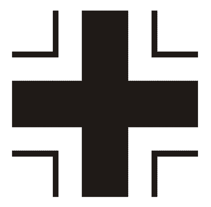 The style of Balkenkreuz used by the Third Reich's Luftwaffe on the lower surfaces of aircraft wings and on the fuselage sides, drawn with the official proportions specified by the Reich Air Ministry just before the outbreak of World War II in 1939. Such dimensions were also the basis of the "low-visibility" version of this marking used late in World War II by the Luftwaffe, using only the "flanks" of the marking shown in white for this regulation example. German armored fighting vehicles (AFVs) during the invasion of Poland (September-October 1939) used a plain white cross, but before the onset of Operation Weserübung (April 1940), the black core cross with white "flanks" that the Luftwaffe used had become the basic German AFV national insignia, as used for the rest of the war (to 1945).